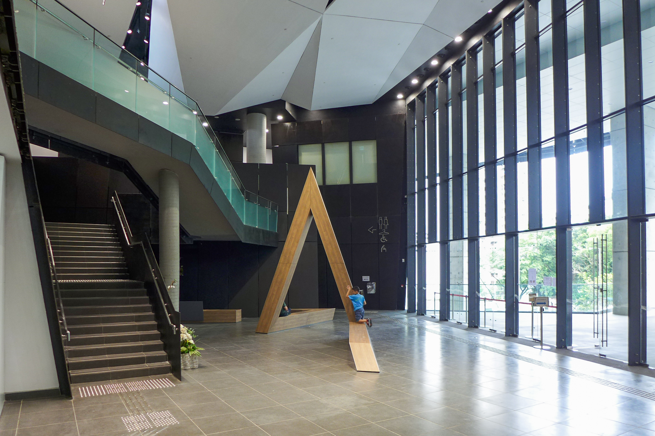 Tsing Yi Southwest Leisure Building